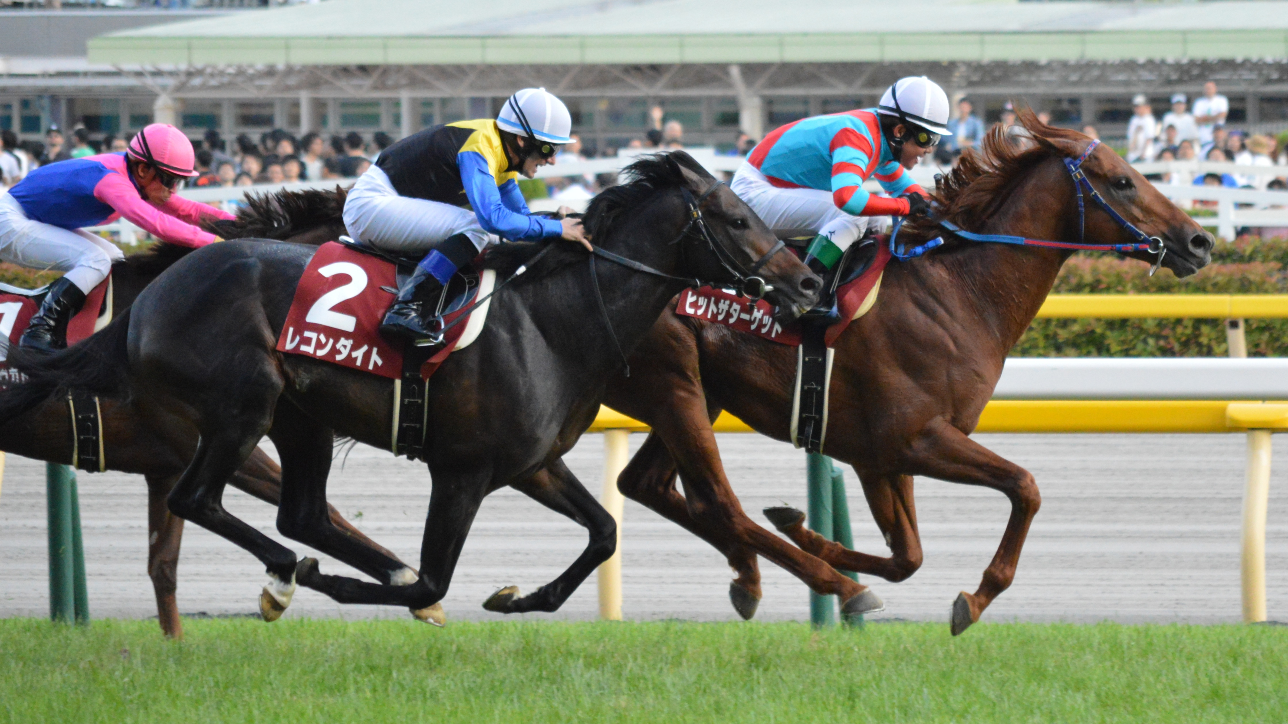 Japanese race horse Hit the target at Tokyo racecourse.